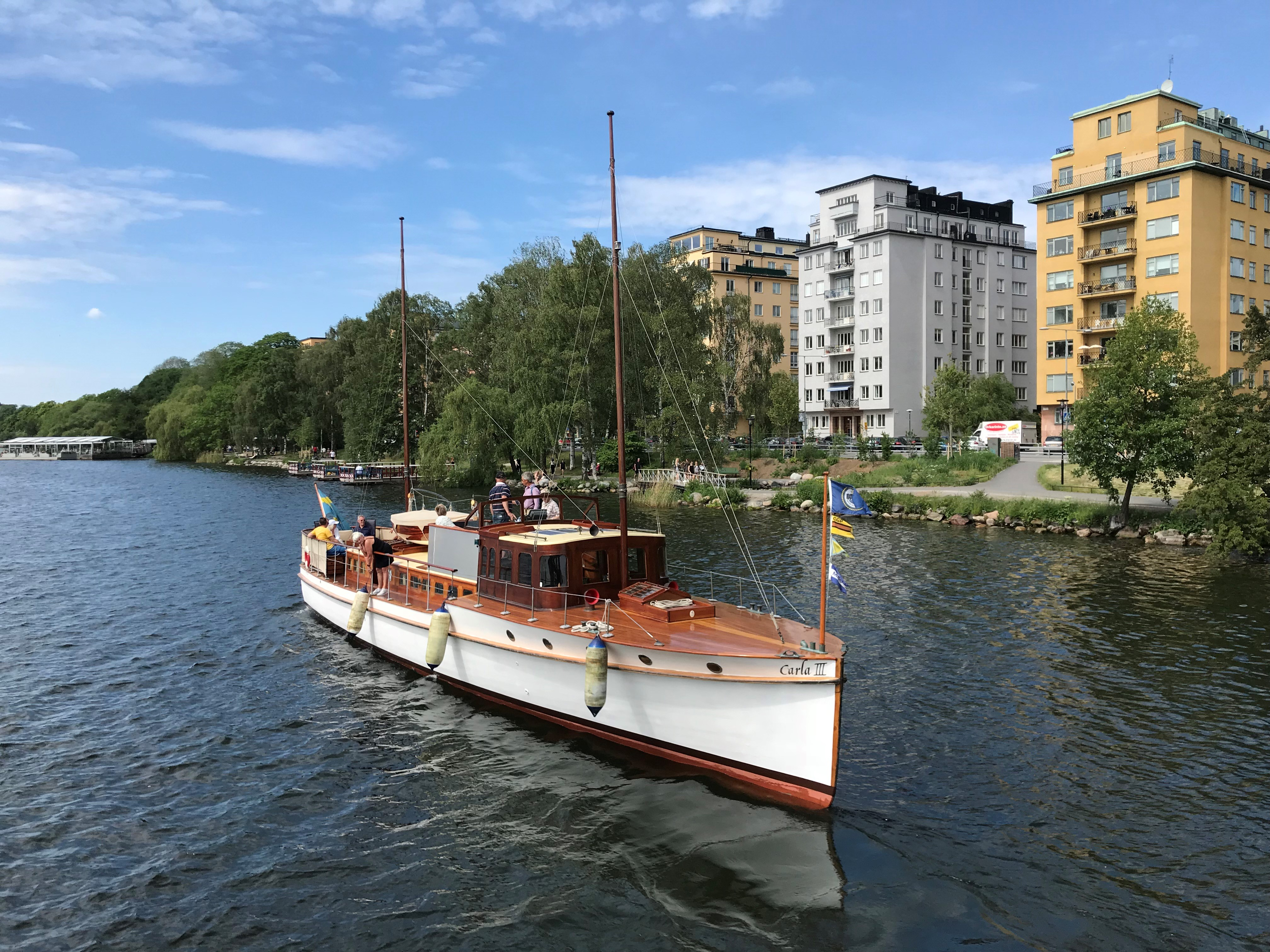 M/Y Carla III from 1917 designed by C G Pettersson photographed close to Norr Mälarstrand in Stockholm, June 16, 2019.